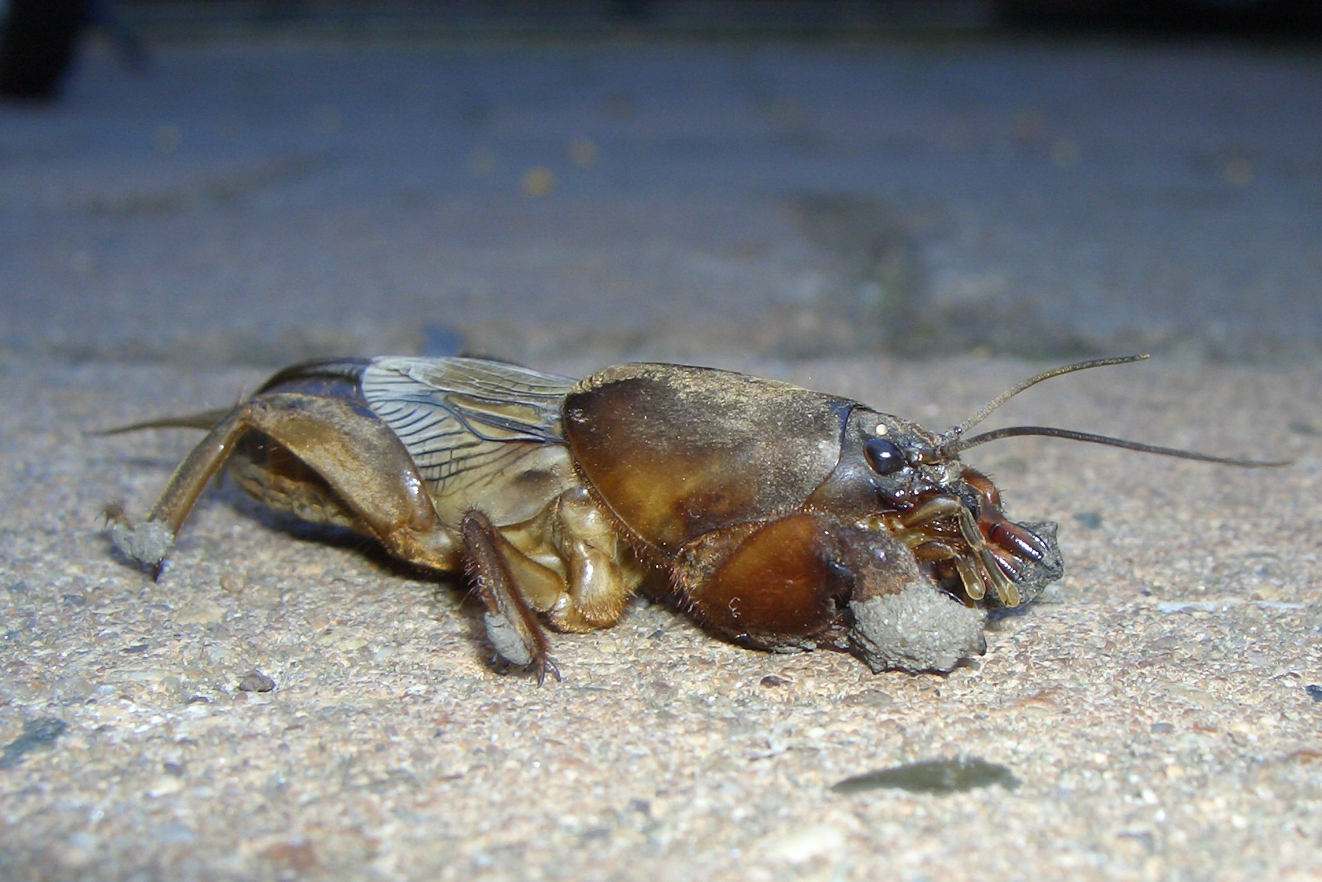 Description: Maulwurfsgrille / Gryllotalpidae Source: from my garden in Jockgrim, Germany Author: Klaus Gebhart, Jockgrim Date: 21.Sep.2006